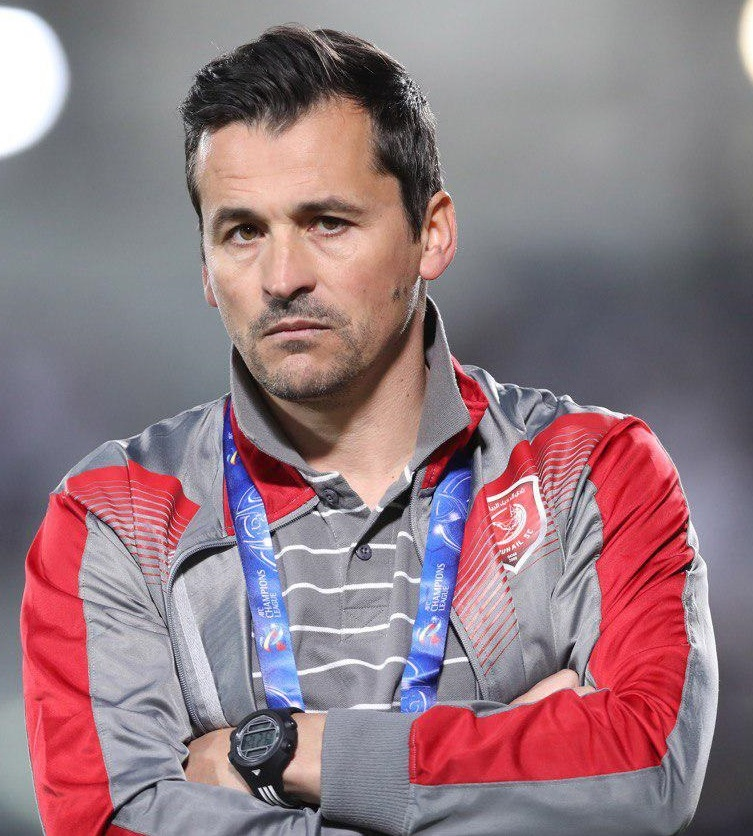 Rui Faria